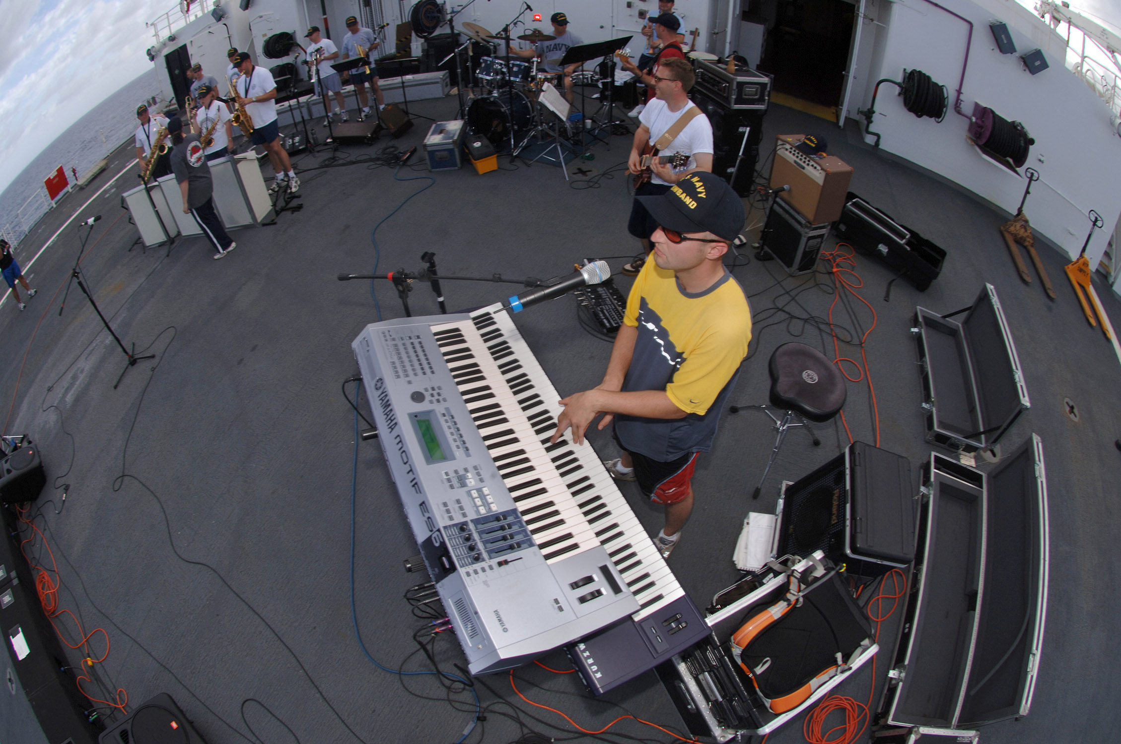 Pacific Ocean (May 7, 2006) - Musician 3rd Class Justin Cody, keyboard player for the Navy Showband, performs for Sailors aboard the Military Sealift Command (MSC) hospital ship USNS Mercy (T-AH 19), as they enjoy an afternoon of good food and music during a steel beach picnic. Mercy is on a five-month deployment to South Asia, Southeast Asia and the Pacific Islands in support of a humanitarian assistance mission. U.S. Navy photo by Chief Photographer's Mate Edward G. Martens (RELEASED)